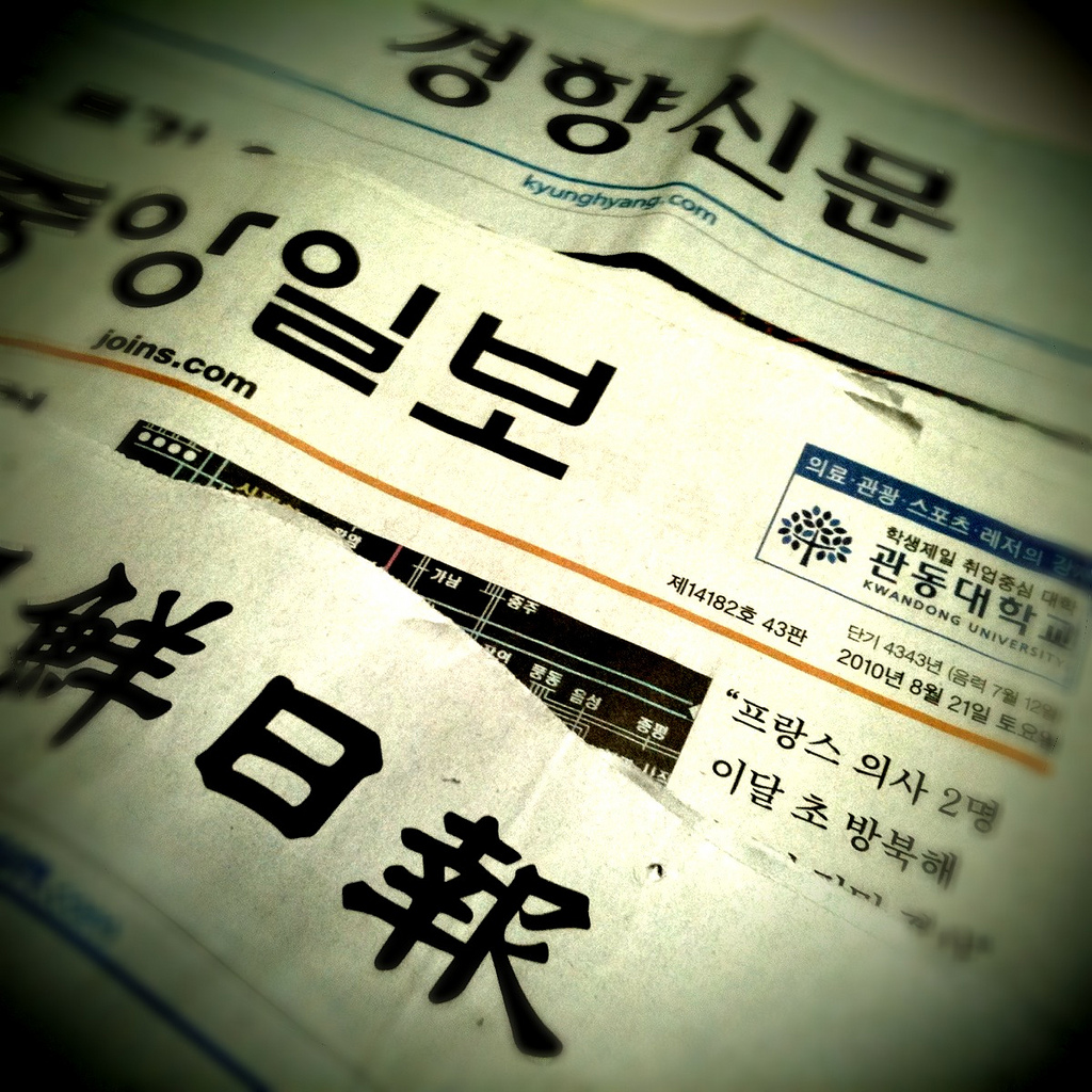 Kyunghyang Shinmun, JoongAng Ilbo, and Chosun Ilbo. (from the top to the bottom)